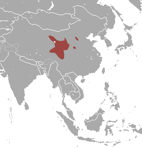 Gansu Pika (Ochotona cansus) range